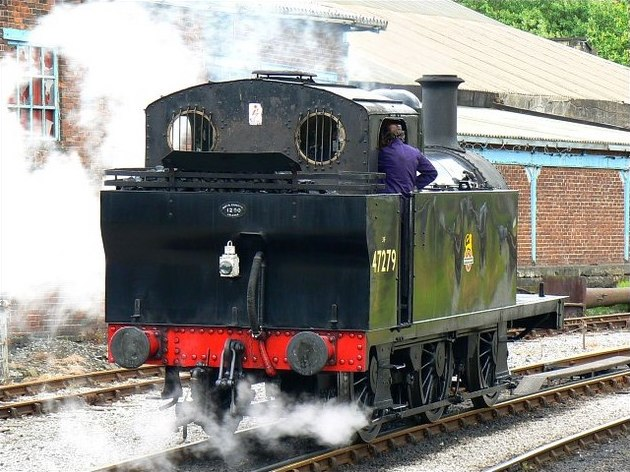 Tank engine, Keighley Station, Worth Valley Railway, Yorkshire